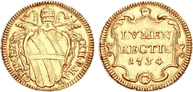 Italy, Papal States. Clemens XII. 1730-1740. AV Scudo (3.08 g, 12h). Rome mint. Dated RY 5 and 1734. Corsini coat-of-arms within ornate frame surmounted by papal tiara and crossed keys; RY in legend LVMEN/RECTIS/1734 in three lines across fields within ornate frame. Muntoni III 13; Berman 2613; Friedberg 224.